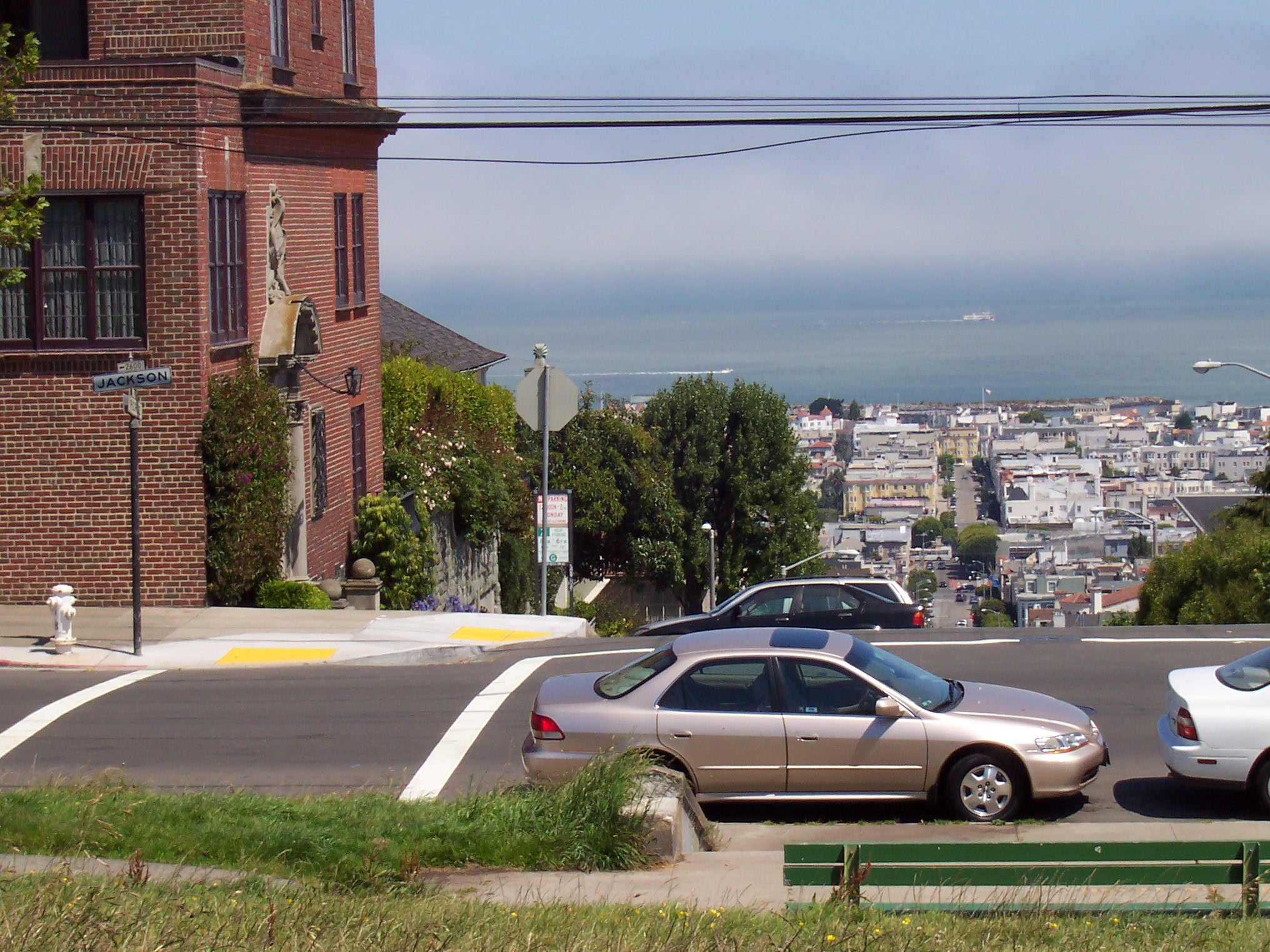 A view from Alta Plaza Park in the Pacific Heights neighborhood of San Francisco, California. The Marina District and San Francisco Bay can be seen below.